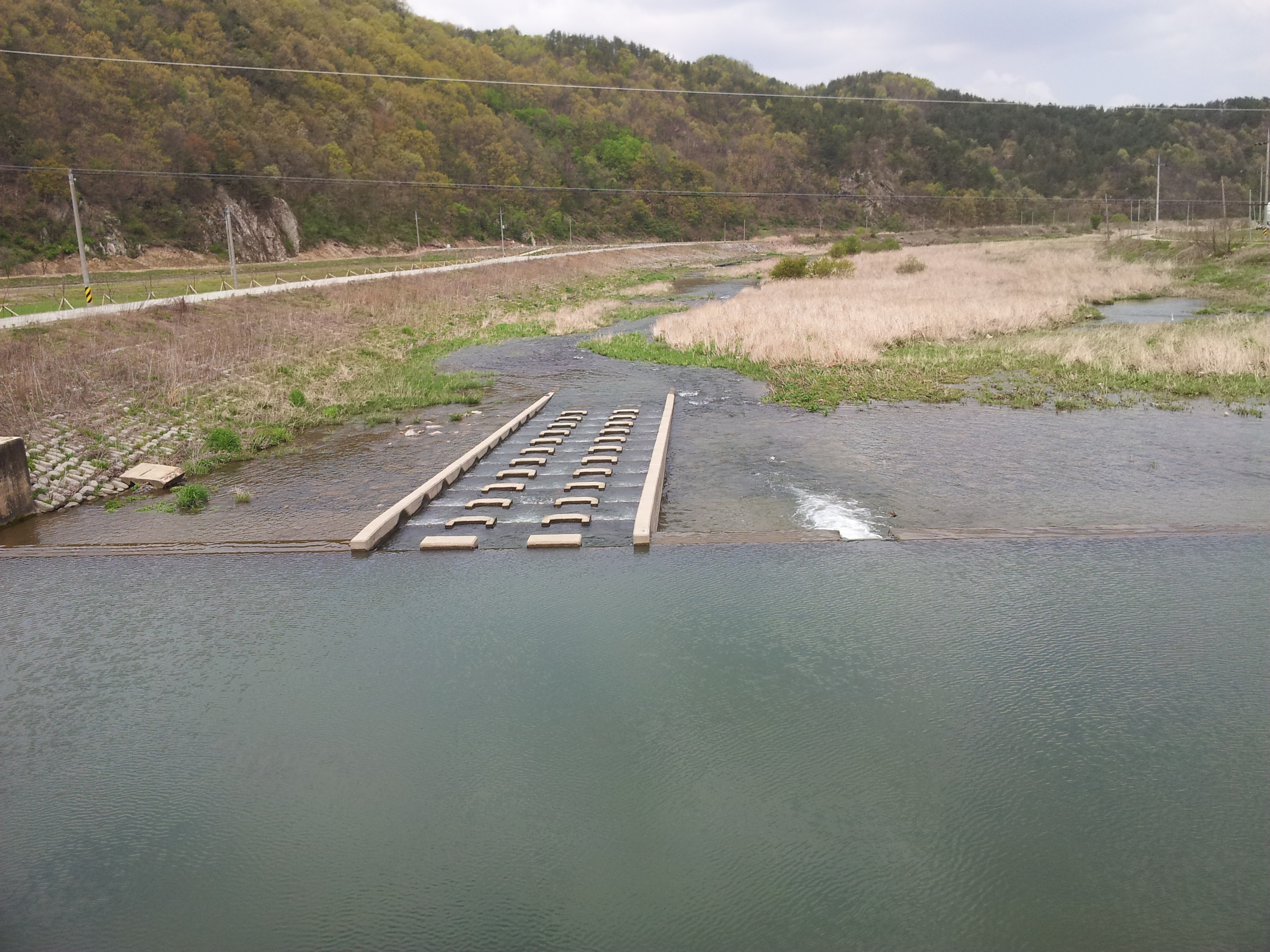 Fish gate at Jeungchon, Gap river, on Nuri bike way